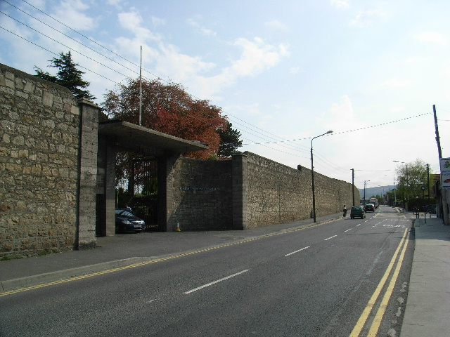 Central Mental Hospital, Windy Arbour The Dundrum Road Entrance to the Central Mental Hospital.